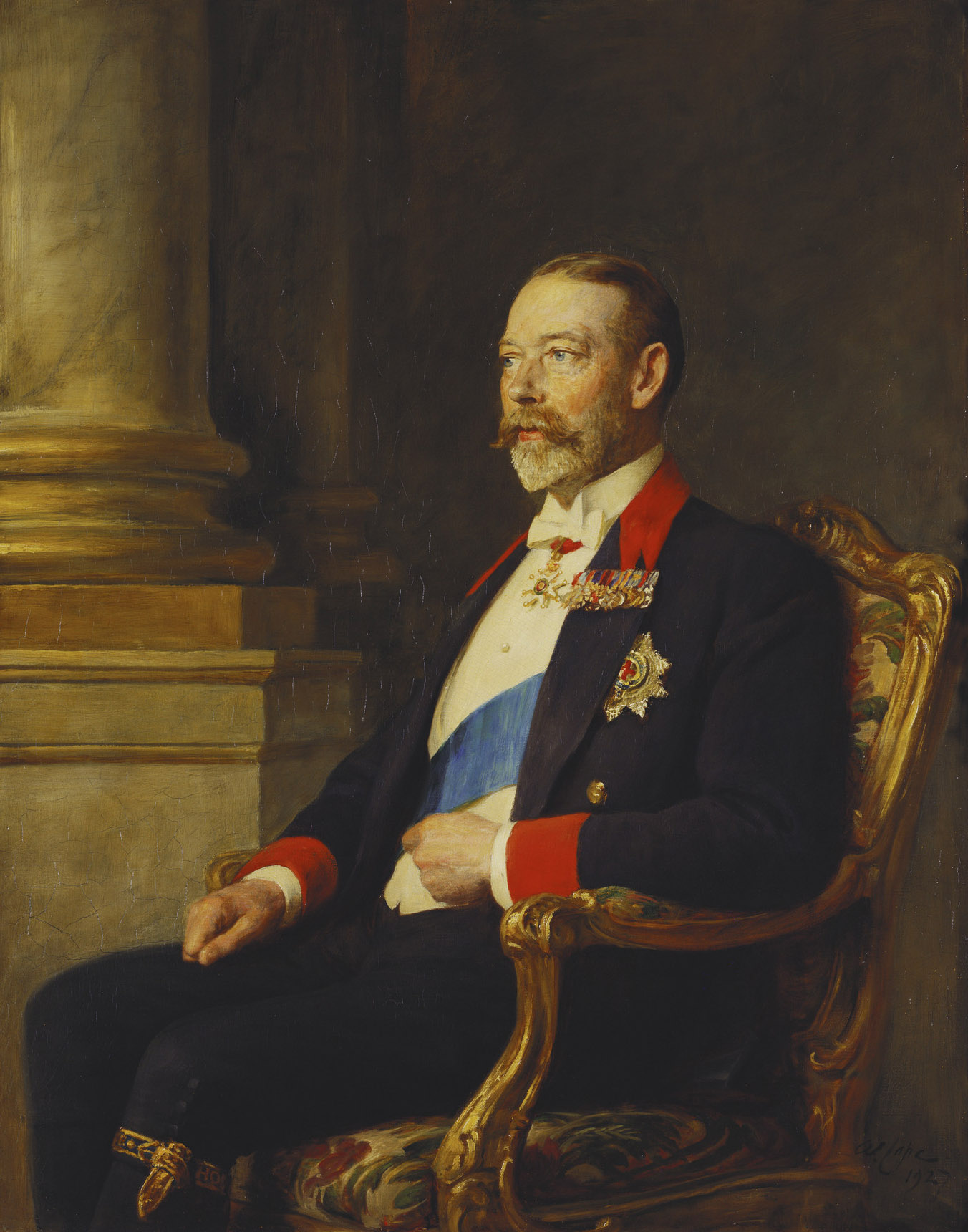 Portrait of King Edward VII